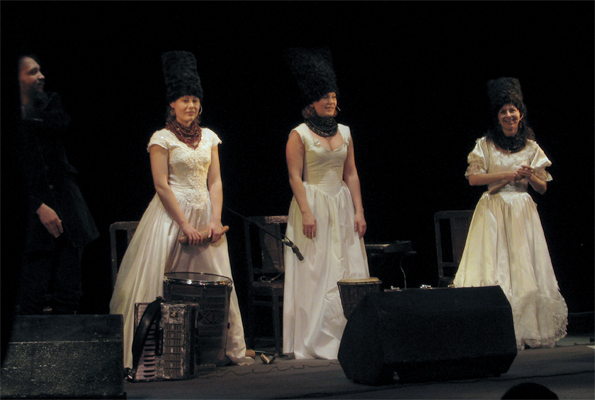 Ukrainian ethno band DakhaBrakha on it's concert in Lviv.